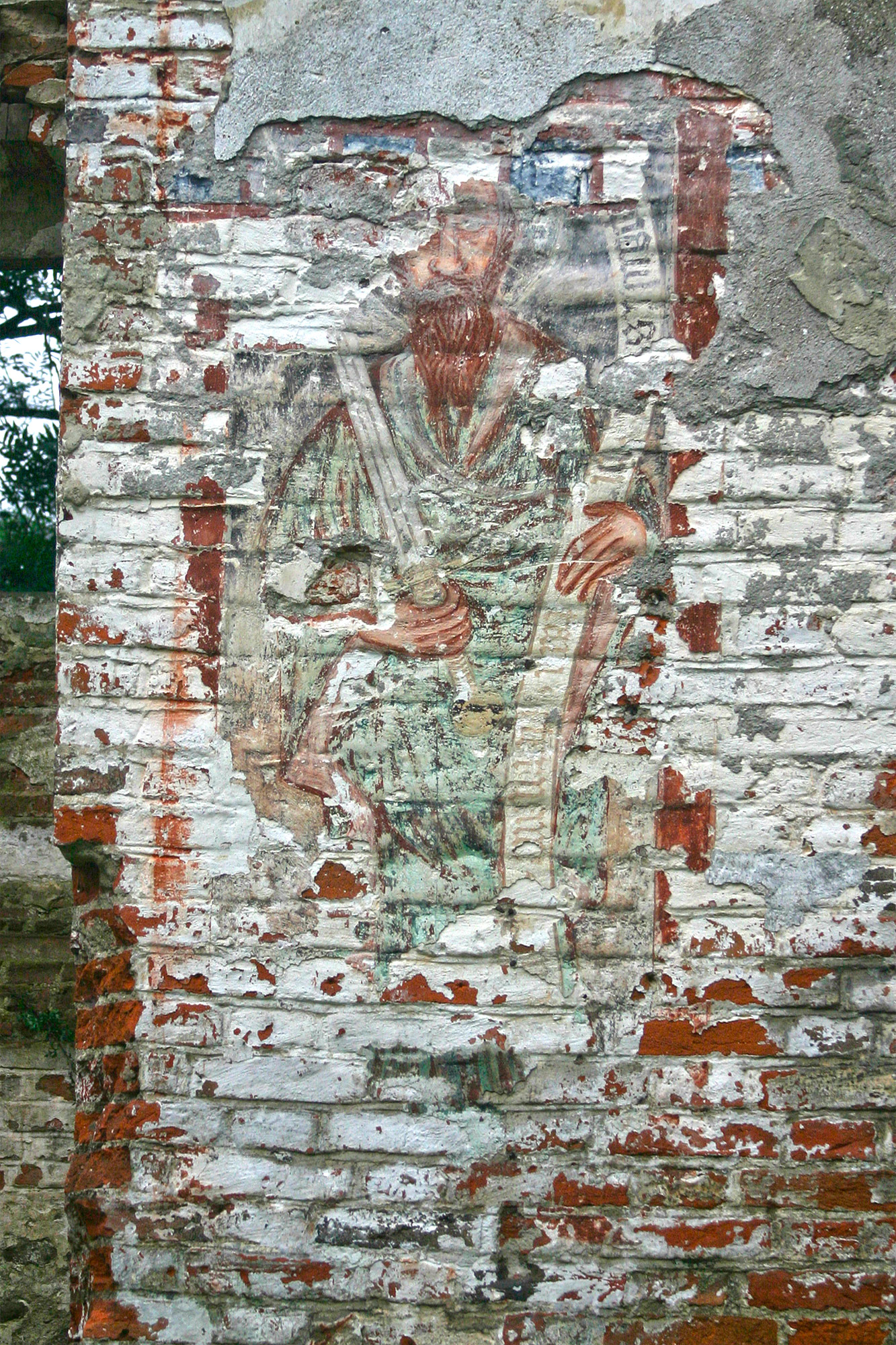 Paul the Apostle